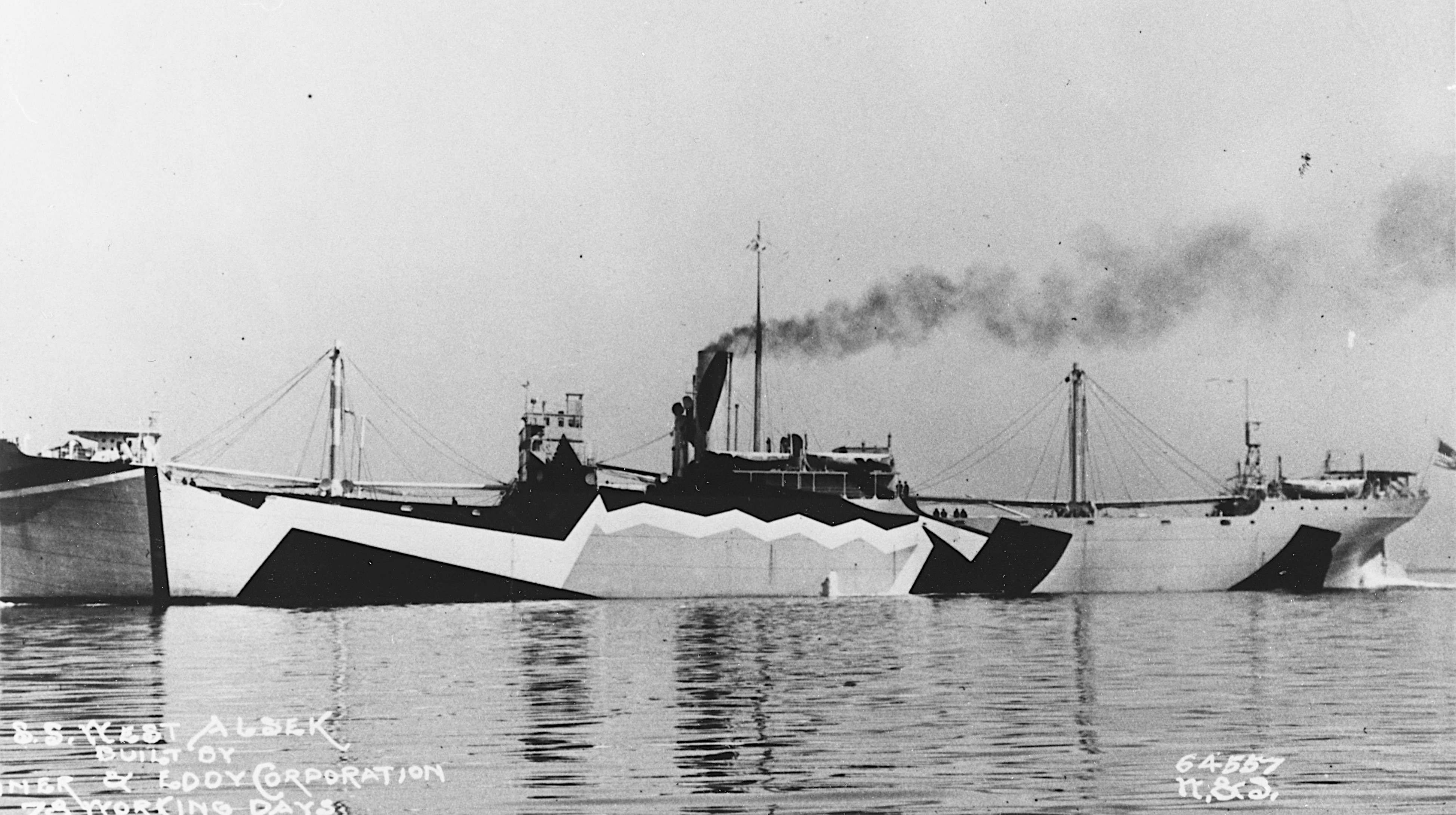 SS West Alsek (American Freighter, 1918) Underway during builder's trials, off Seattle, Washington, on 4 June 1918, while painted in pattern camouflage. Built in 78 working days by the Skinner & Eddy Corporation, of Seattle, this steamship was acquired by the Navy on the day of her trials and placed in commission as USS West Alsek (ID # 3119). She was returned to the U.S. Shipping Board on 27 January 1919. The original print is in National Archives' Record Group 19-LCM. U.S. Naval Historical Center Photograph.